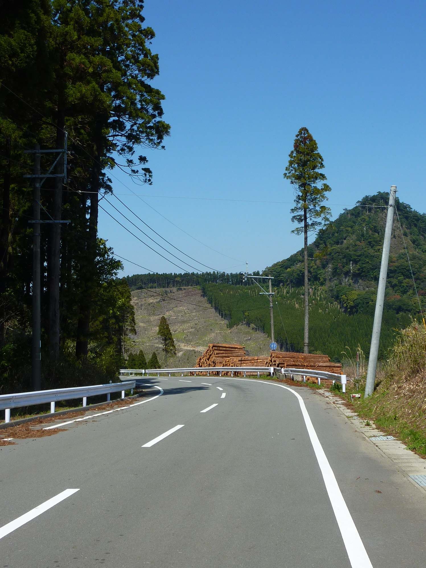 The Miyazaki Prefectural Road Route 27 in Kagamizu, Miyazaki City